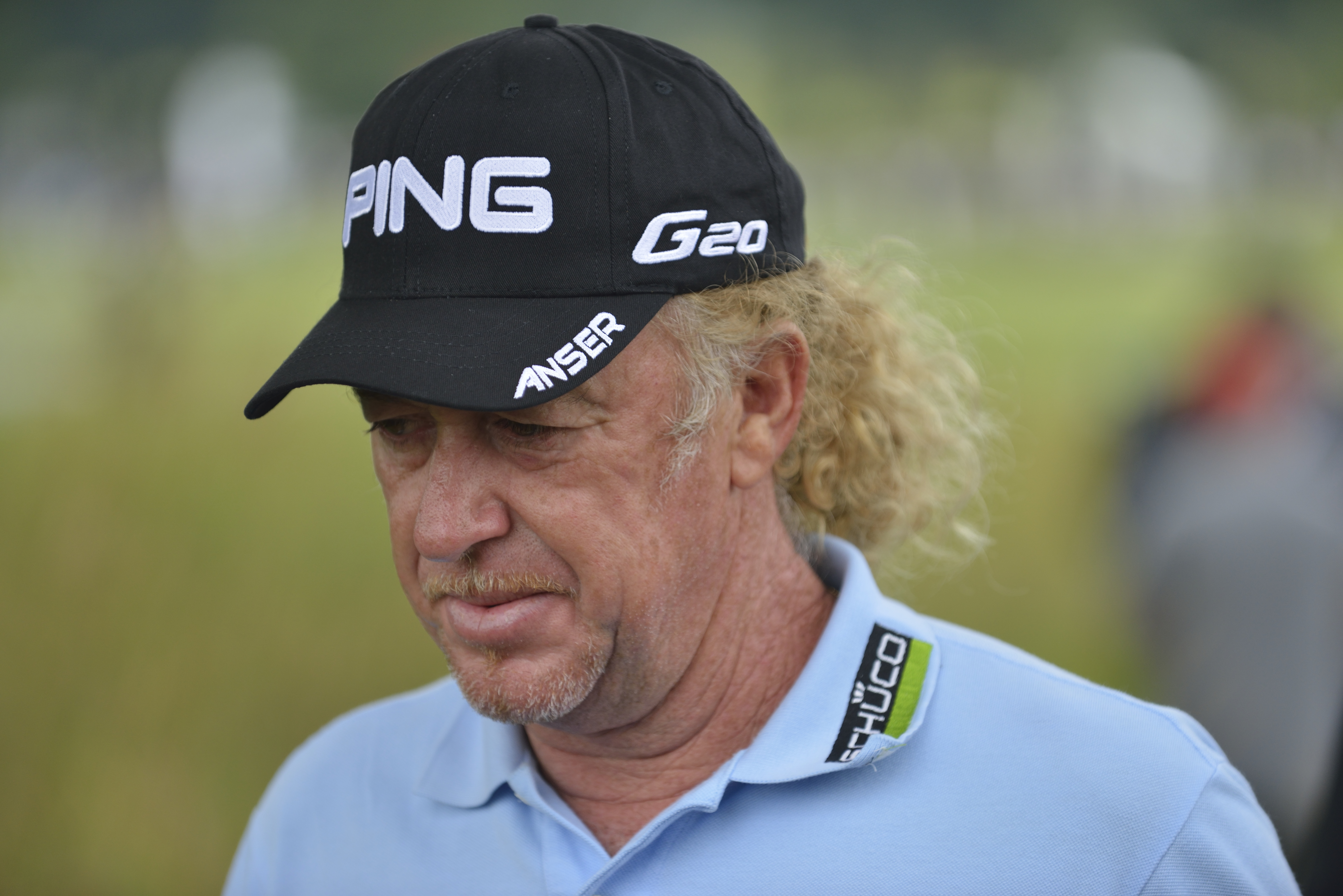 Miguel Angel Jimenez at the Schüco Open 2012, Golfclub Gut Kaden